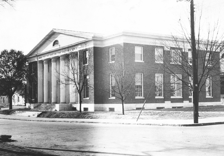 J. Roy Rowland United States Courthouse, Dublin (Laurens County, Georgia) cropped This work is in the public domain in the United States because it is a work prepared by an officer or employee of the United States Government as part of that person’s official duties under the terms of Title 17, Chapter 1, Section 105 of the US Code. Note: This only applies to original works of the Federal Government and not to the work of any individual U.S. state, territory, commonwealth, county, municipality, or any other subdivision. This template also does not apply to postage stamp designs published by the United States Postal Service since 1978. (See § 313.6(C)(1) of Compendium of U.S. Copyright Office Practices). It also does not apply to certain US coins; see The US Mint Terms of Use. This file has been identified as being free of known restrictions under copyright law, including all related and neighboring rights.